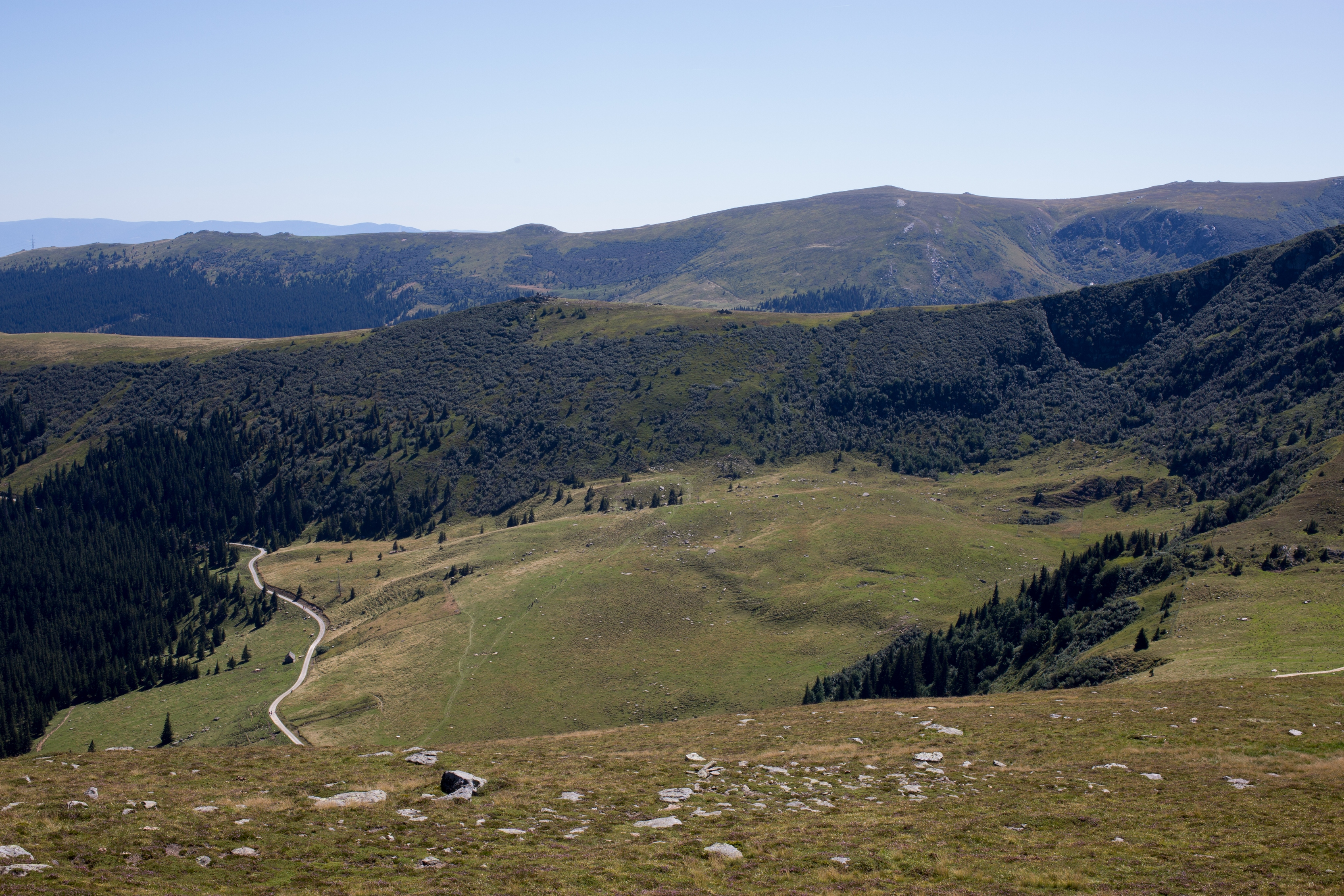 Bärentalalm seen from Moschkogel. Waterhead of the river Schwarze Sulm (Black Sulm), Styria, Austria This media shows the nature reserve in Styria with the ID NSG 10 a.